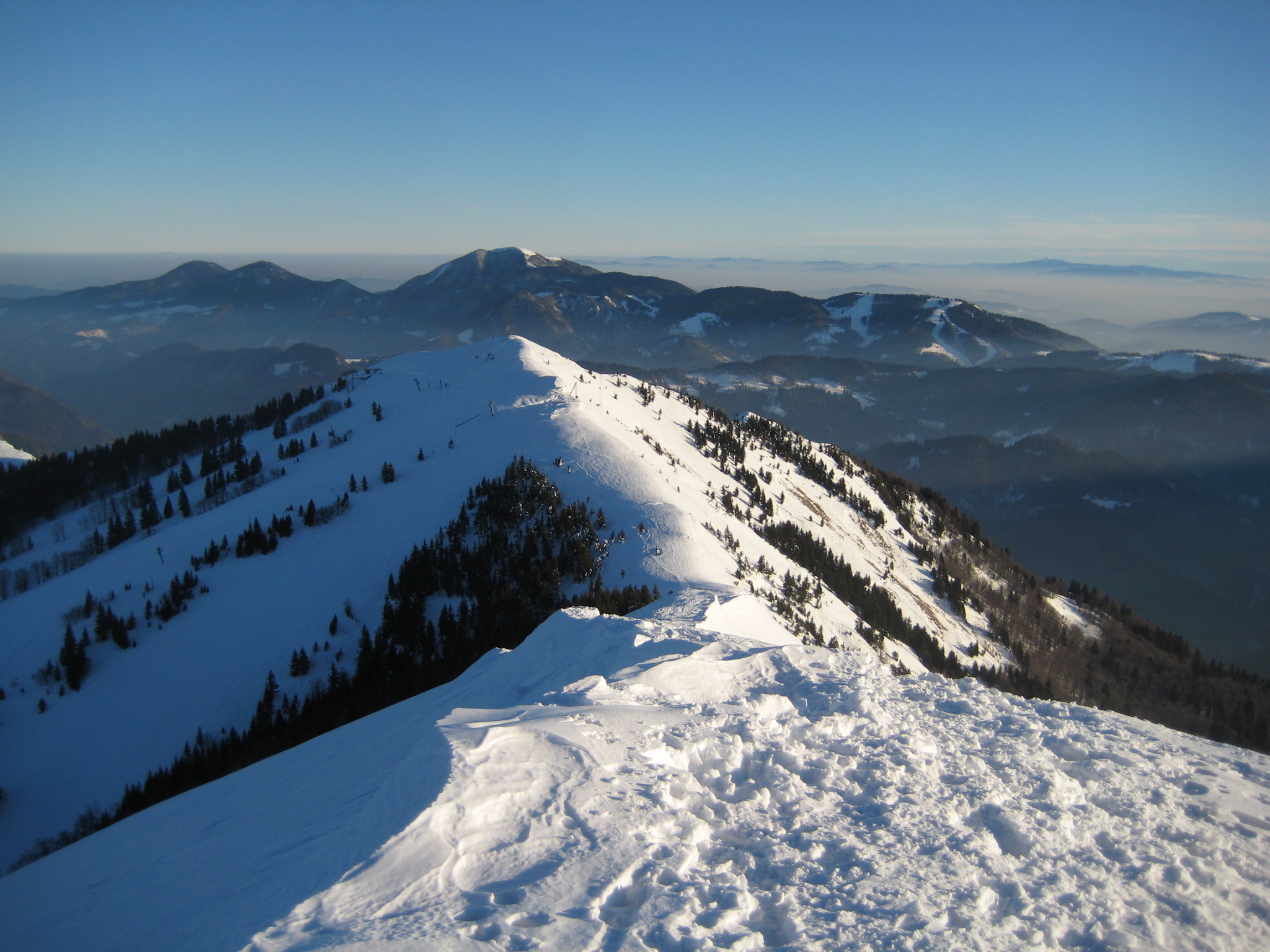 Lajnar, mountain in Slovenia (at the back is mt. Blegoš) - view from Slatnar